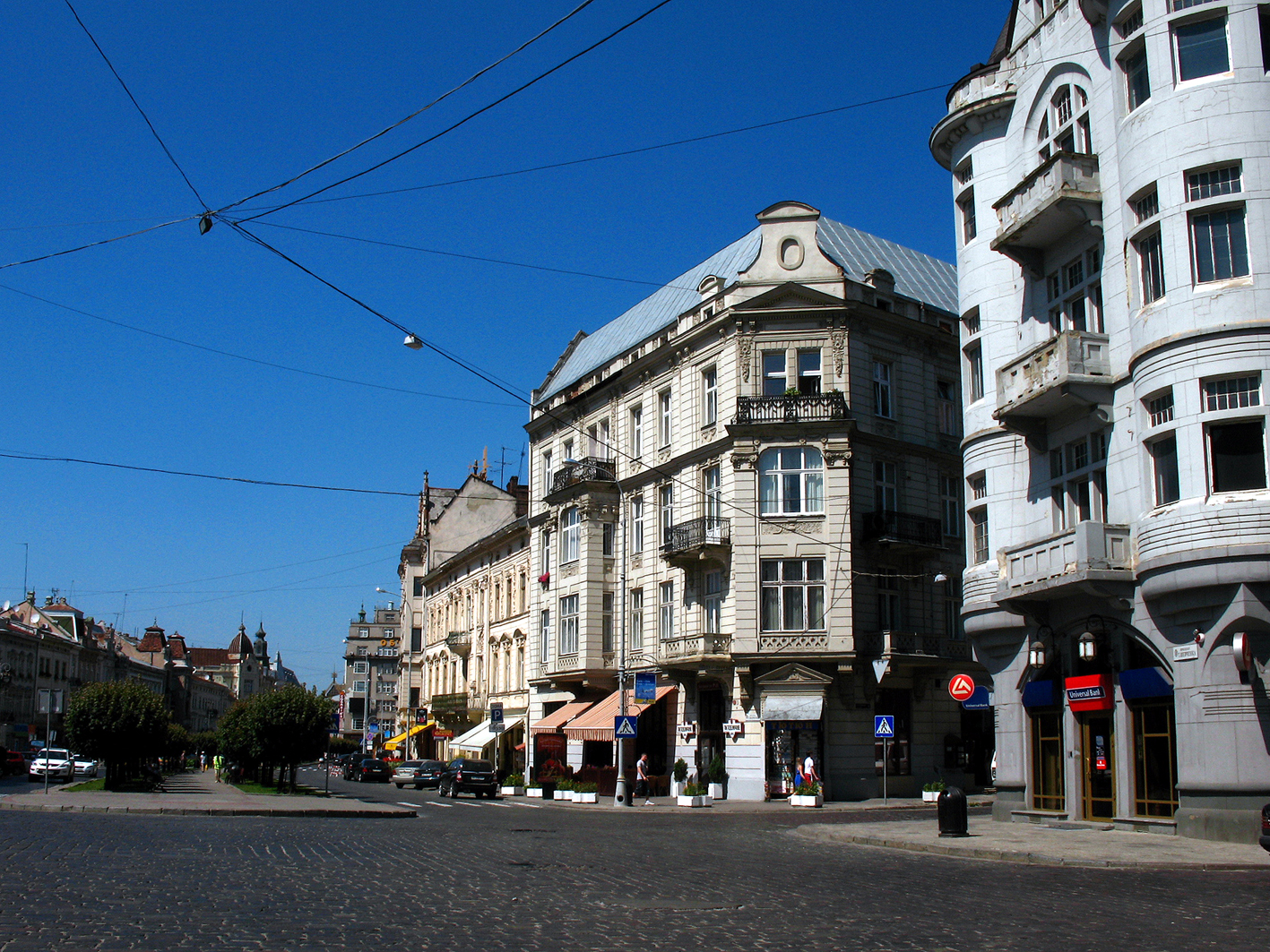 Shevchenko Avenue in Lviv, Ukraine. Before the World War II famous Polish mathematics (Stefan Banach and many others) used to meet in "Scottish Cafe" in the building on the right.